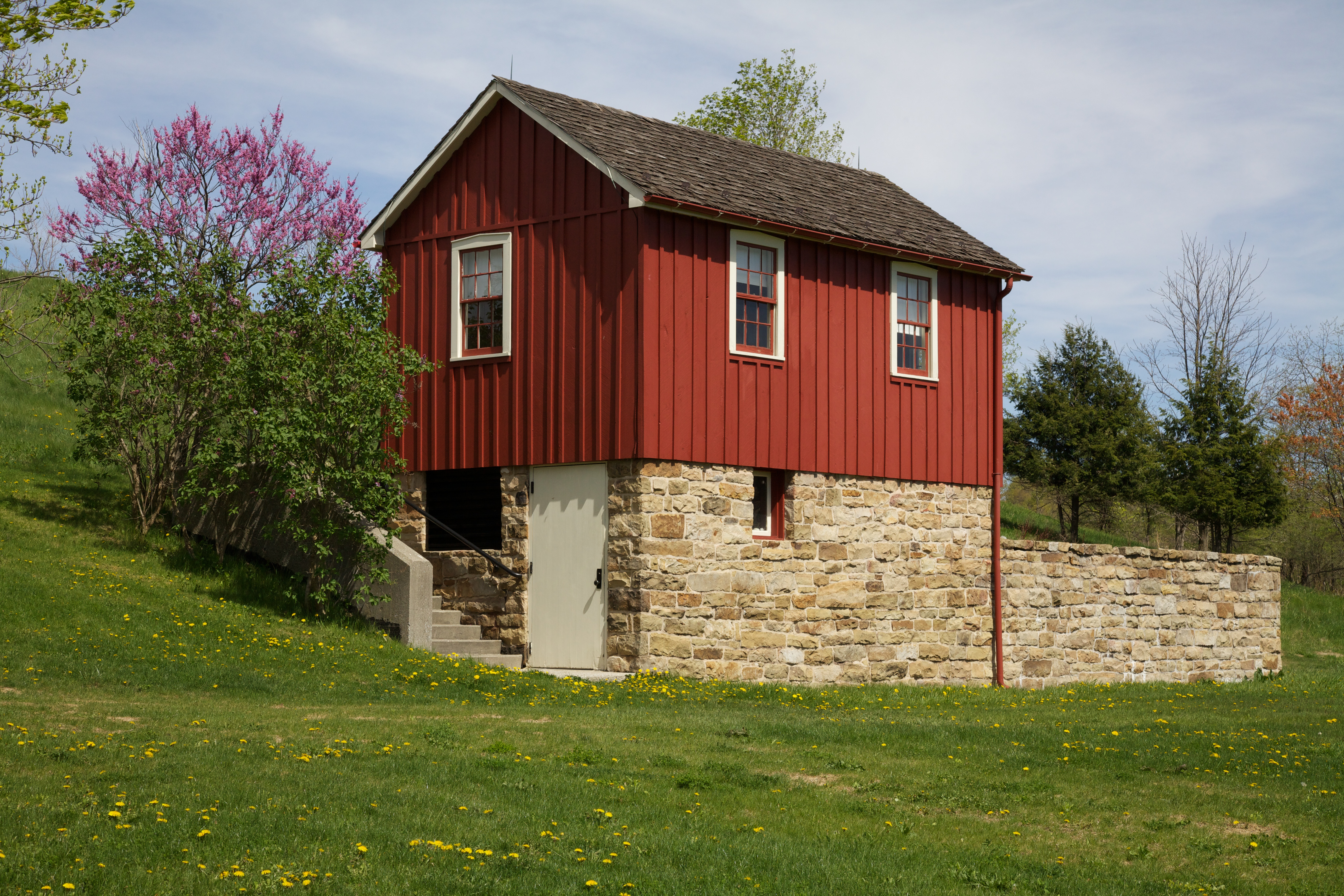 House occupied by Col. Elias J. Unger who was the manager of the South Fork Fishing and Hunting Club. This house overlooked the club, the lake, and the South Fork Dam. Unger supervised the laborers who tried, unsuccessfully, to save the Dam from collapse on May 31, 1889.